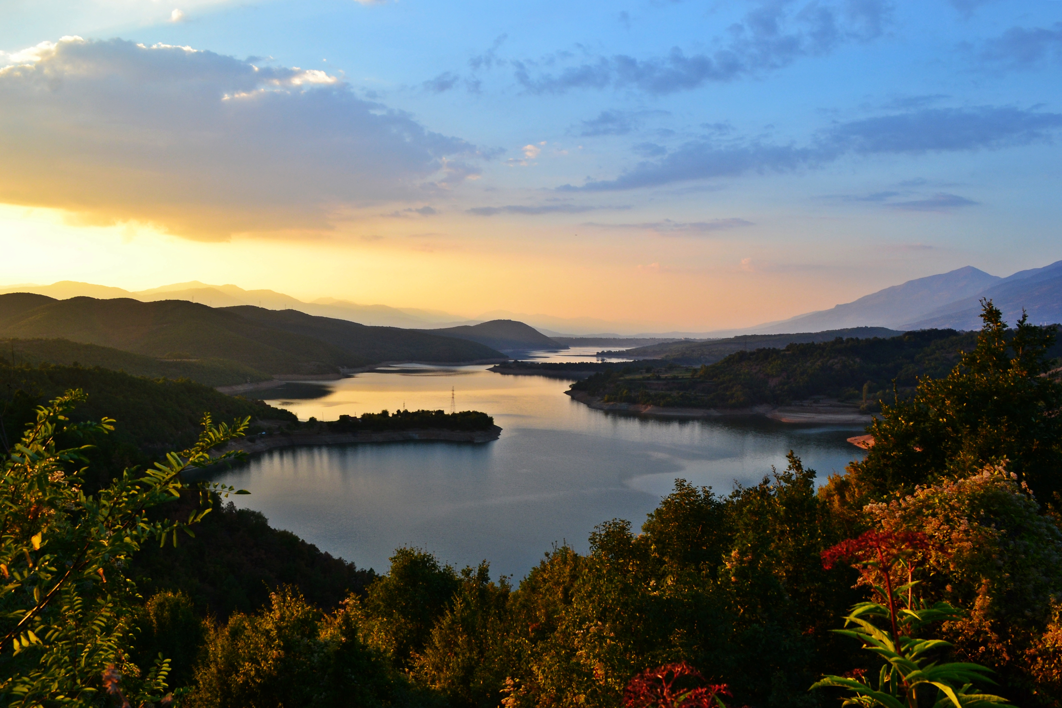 Sunset abiove Debar Lake, Macedonia